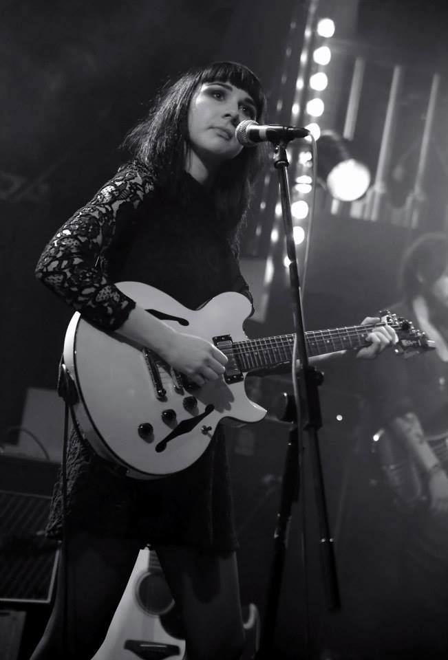 Natalie McCool at her November UK tour kick off show (2013)